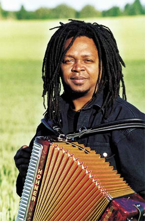 Paul Bert Rahasimanana, more commonly known by his stage name Rossy, a popular musician in Madagascar